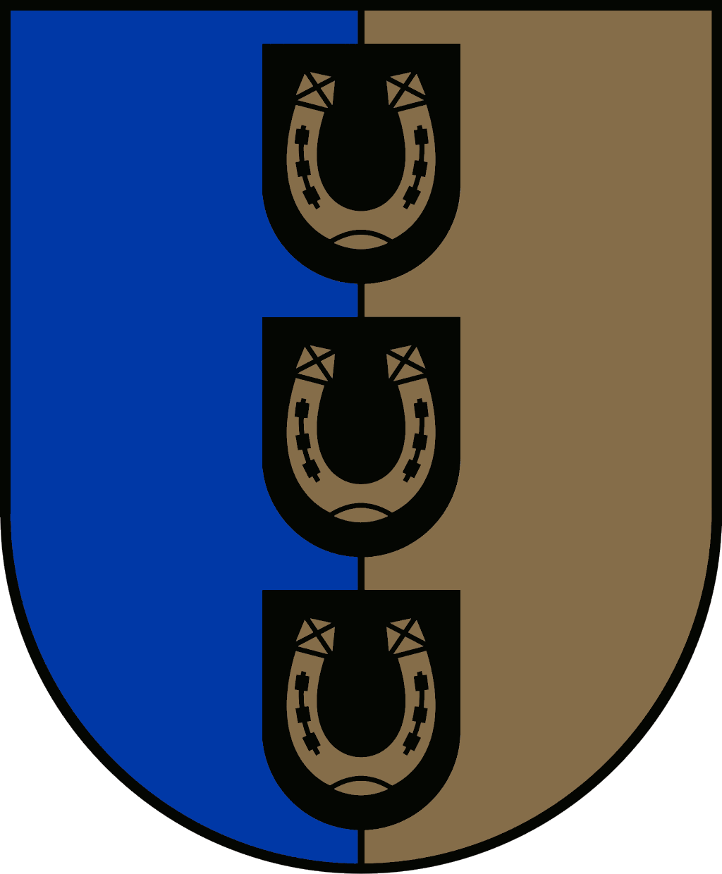 Coat of arms of Baltinava Municipality, Latvia.